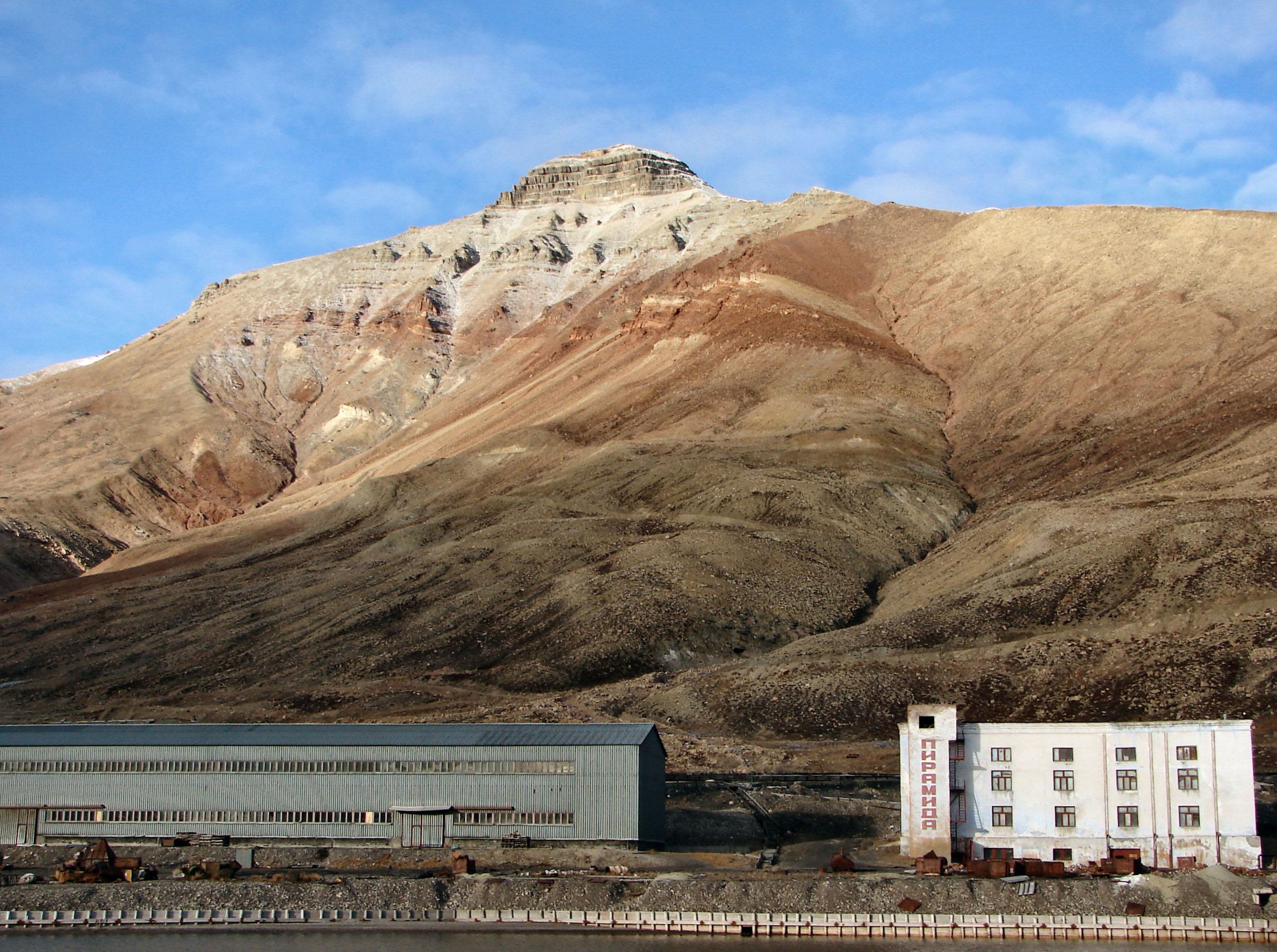 The port of Pyramiden, with the settlement's name written in Cyrillic letters, and with the mountain giving the place its name in the background.